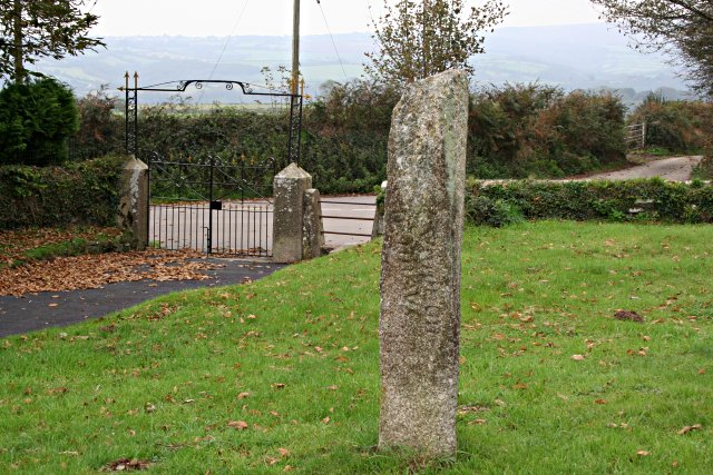 Inscribed Stone in South Hill Churchyard, near to South Hill, Cornwall, Great Britain. This stone was inscribed sometime in the 6th to 8th century with a Latin inscription which has been translated as "the stone of Cumregnus, son of Maucus". It is believed to be an early Christian memorial. The inscription, though faint, is just visible on the face of the stone.